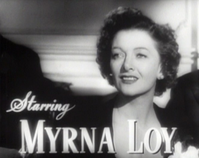 Cropped screenshot of Myrna Loy from the trailer for the film The Best Years of Our Lives.